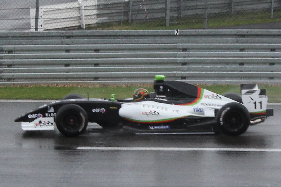 Sten Pentus at the 2011 Nürburgring World series by Renault round